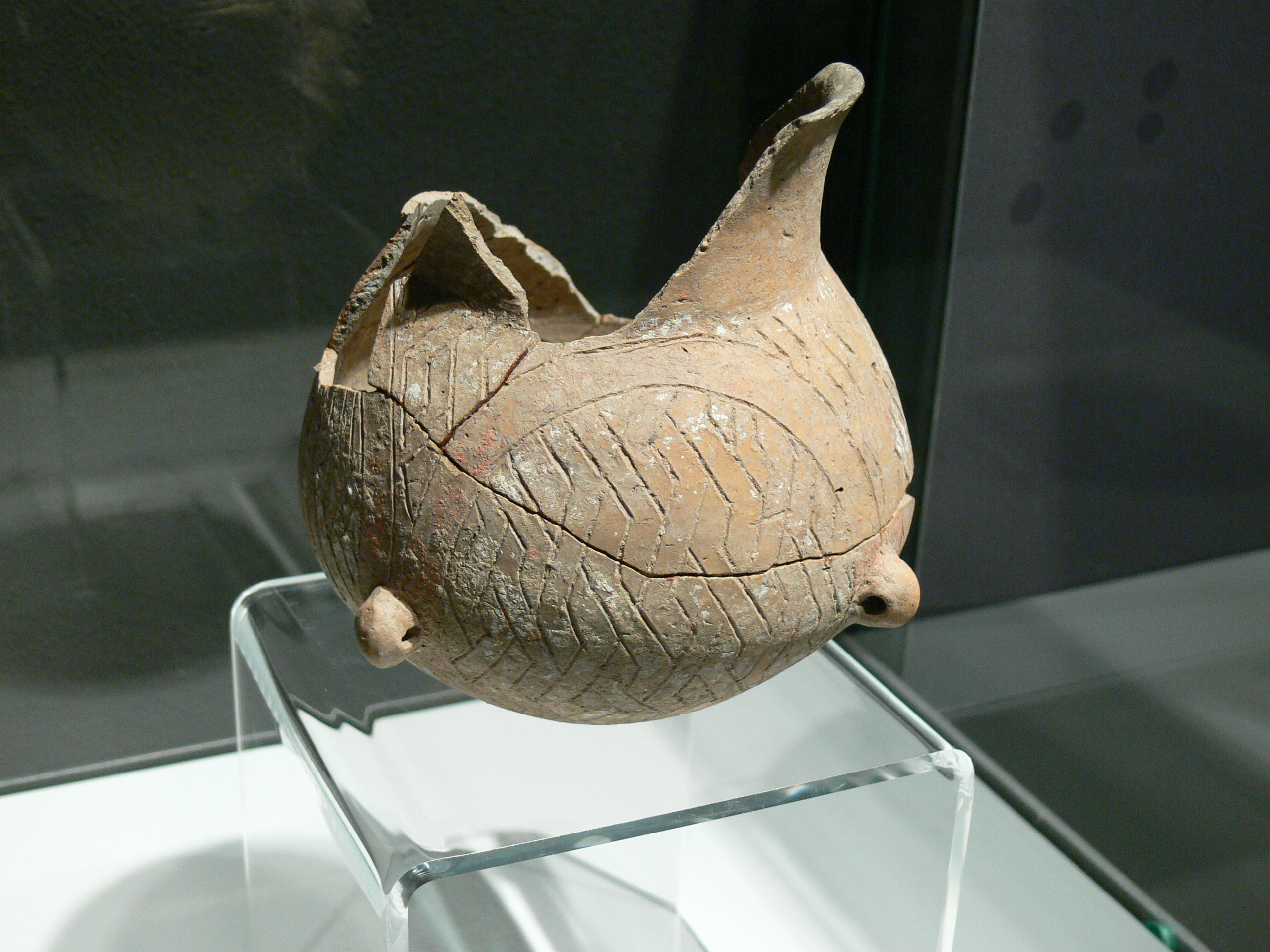 Museum Quintana. Lengyel culture ( Moravia ): Pottery ( 4300 BC ).